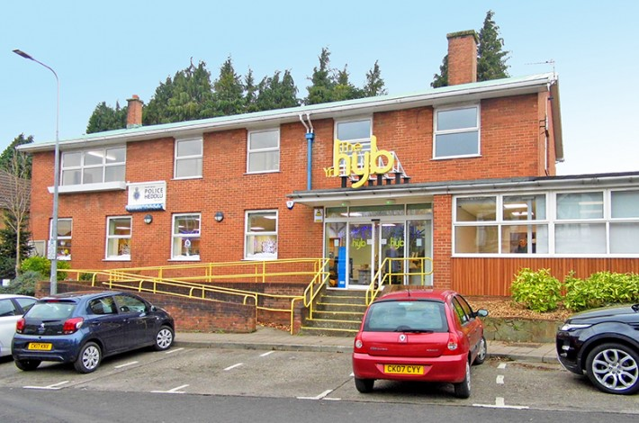 The new Llanishen hub, Cardiff, Wales